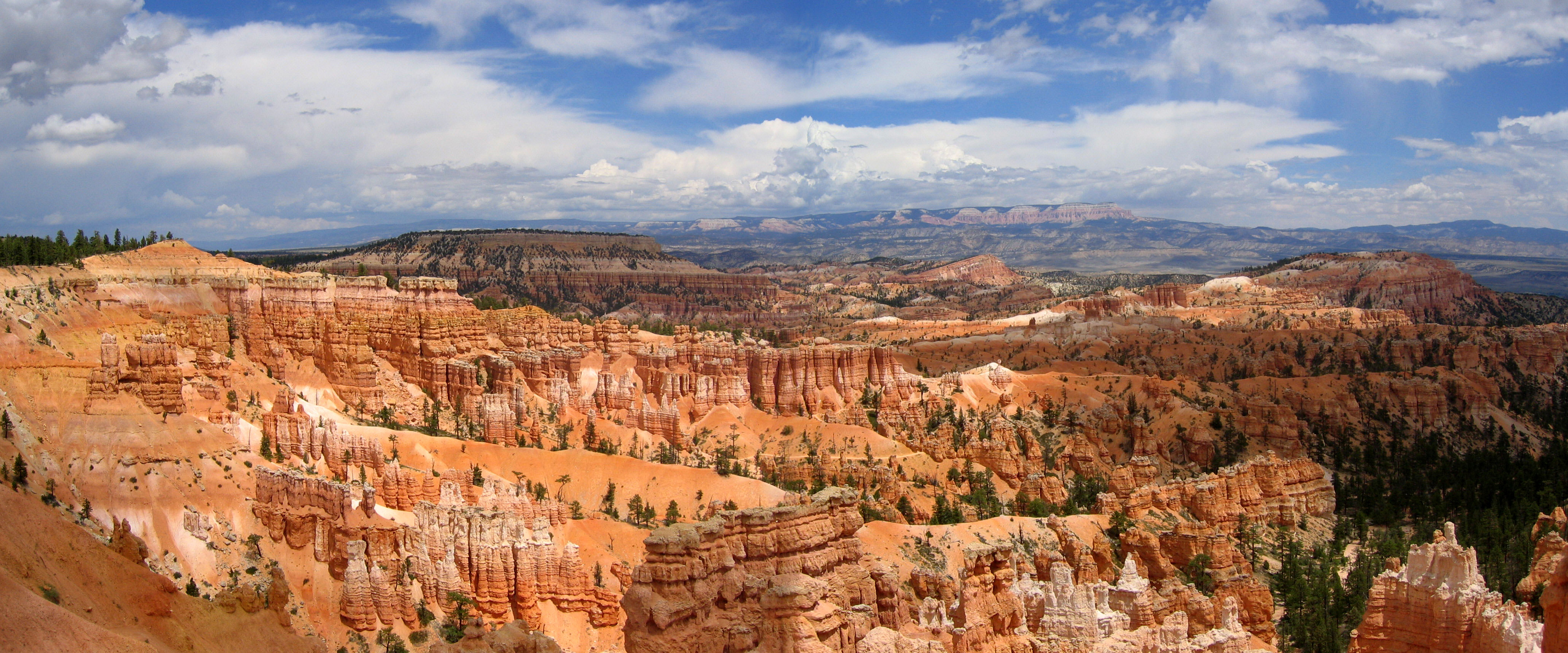 Panoramic view of the Bryce Canyon. Parc national de Bryce Canyon, Utah (USA).